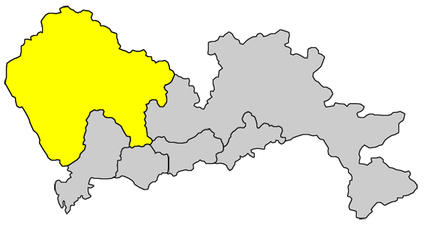 Location of Bao'an District, Shenzhen